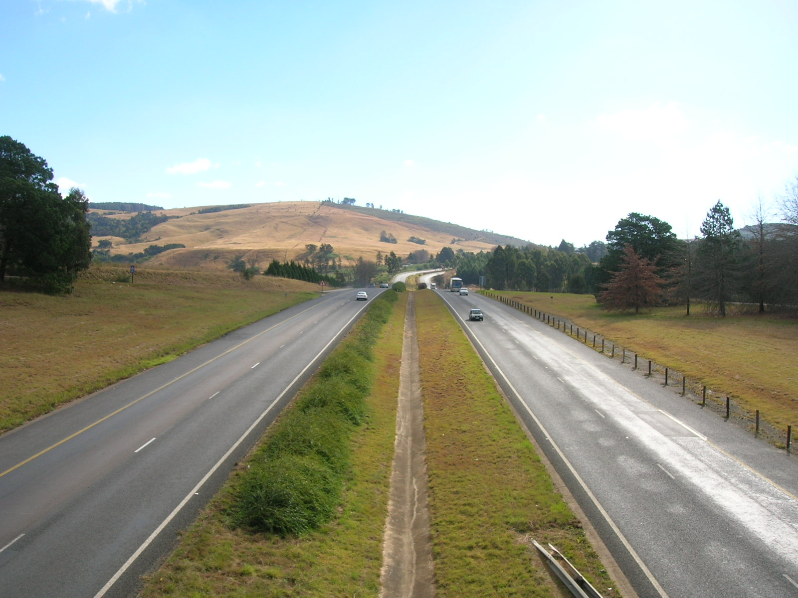 The N3 National Highway in South Africa, taken from a bridge over the freeway in the KwaZulu-Natal Midlands